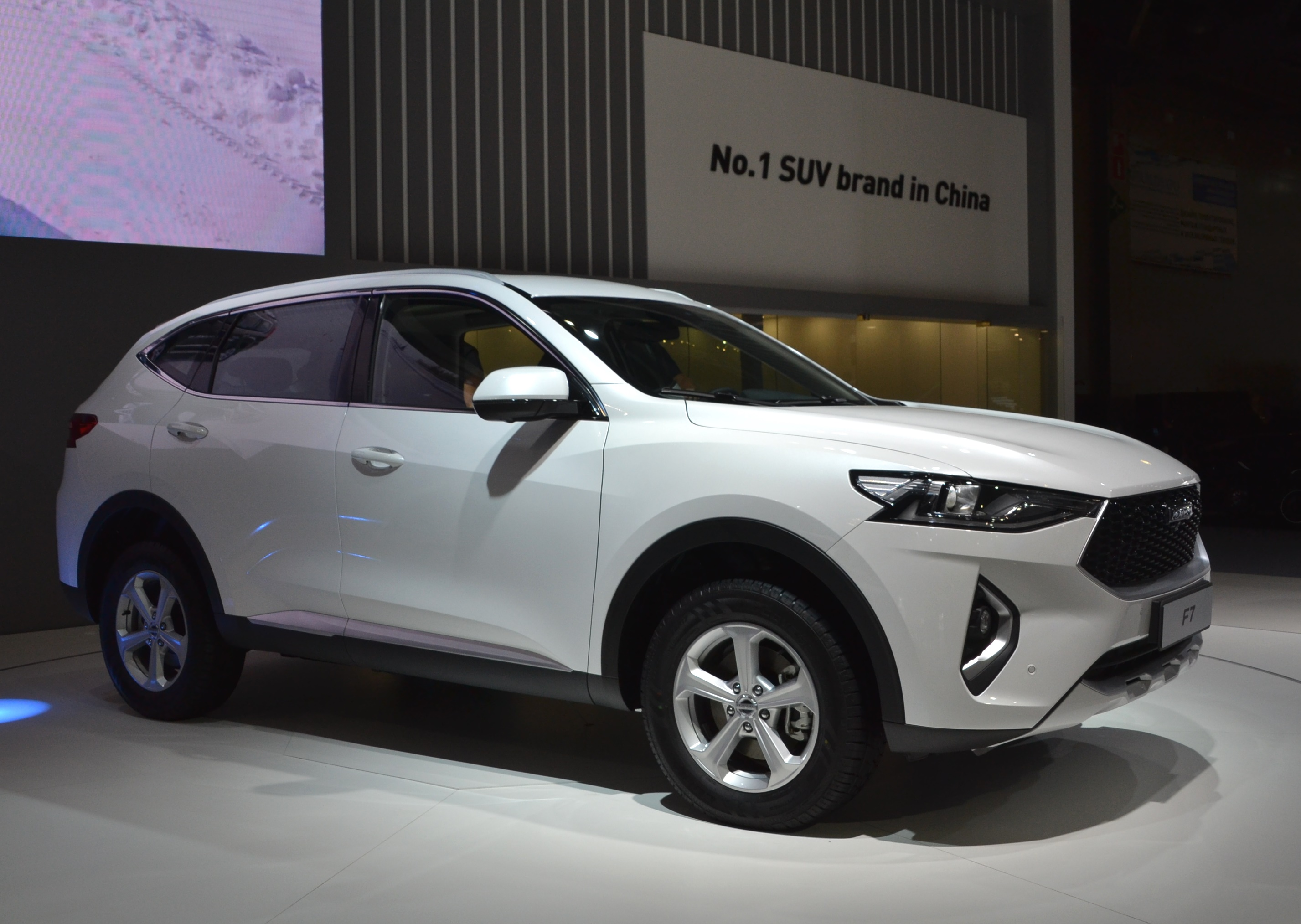 Haval F7 at Moscow International Motor Show, 2018